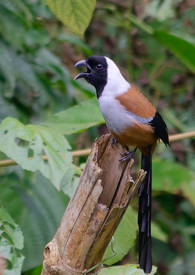 Collared Treepie (Dendrocitta frontalis) at Deban, Arunachal Pradesh